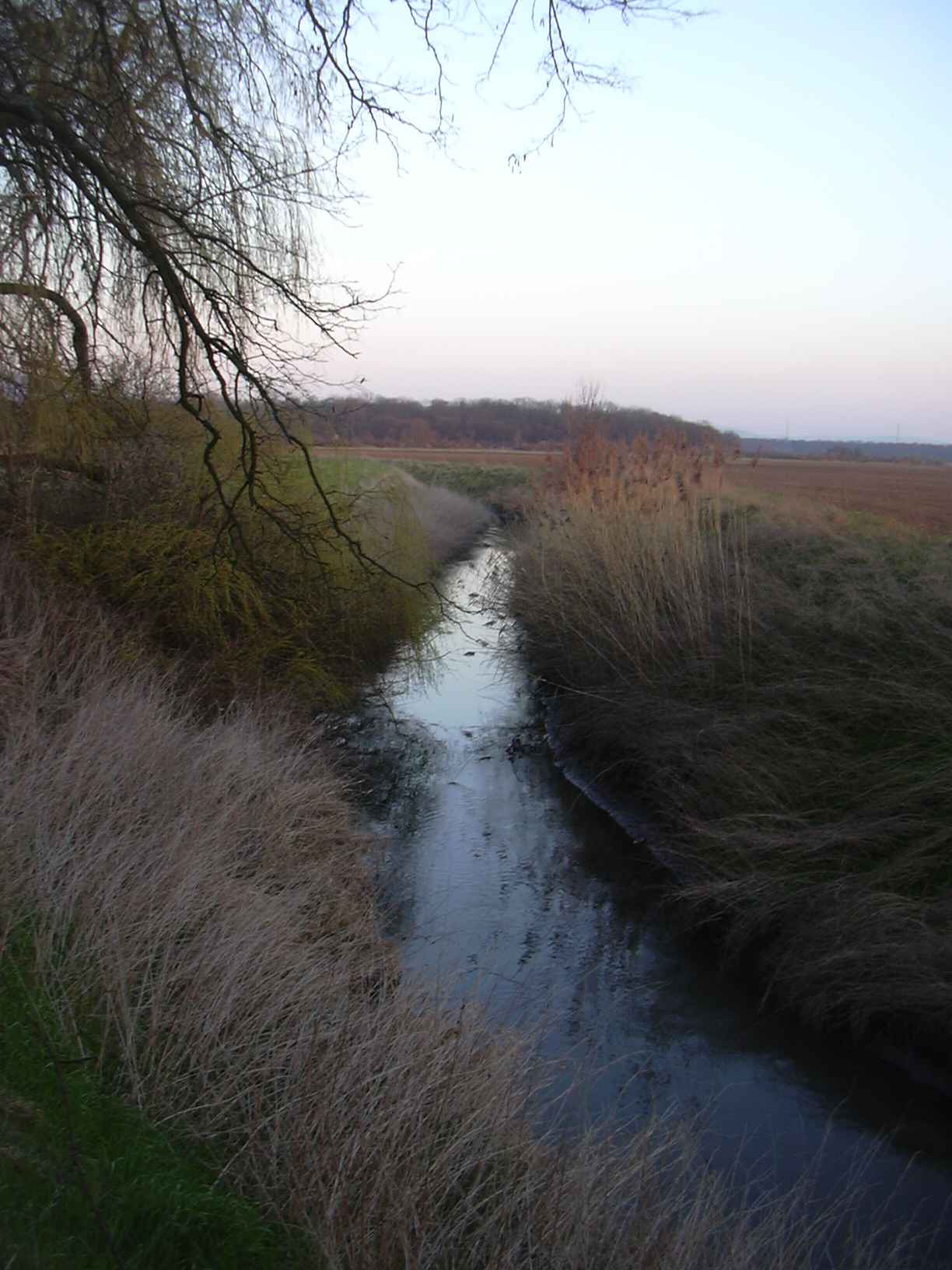 Typical Ried landscape near Gernsheim